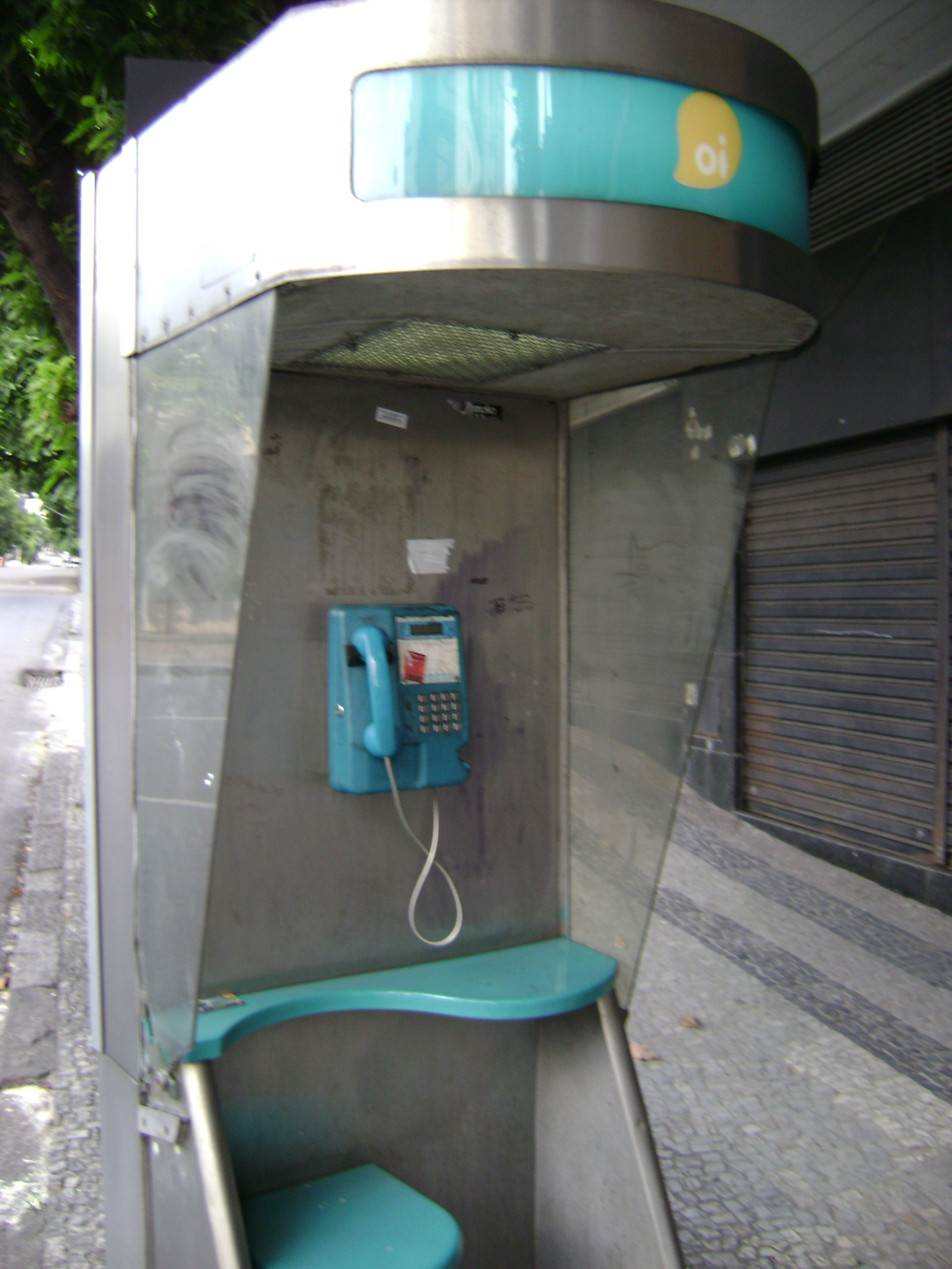 Cabine de telefone público em Belo Horizonte.